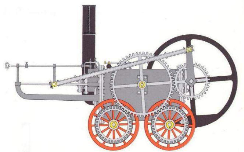 Locomotive made by Richard Trevithick and Andrew Vivian (1801)